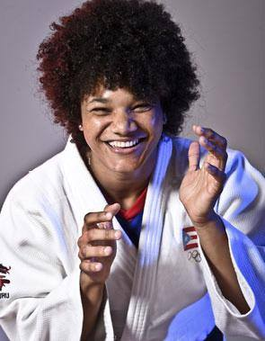 Maria Perez